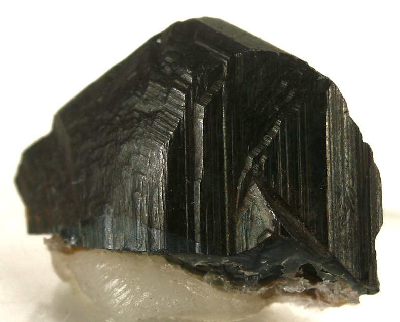 Digenite Locality: Butte, Butte District, Silver Bow County, Montana, USA (Locality at ) Size: thumbnail, 1.7 x 1.2 x 0.4 cm Digenite A very sharp single crystal thumbnail specimen of this classic sulfide from Butte. Ex. John White Collection.